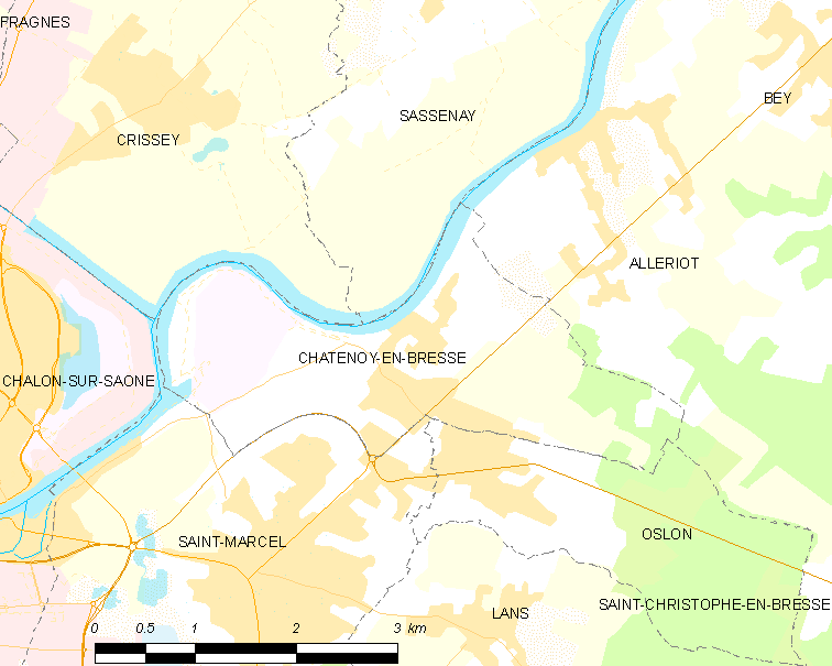 Map of French municipality